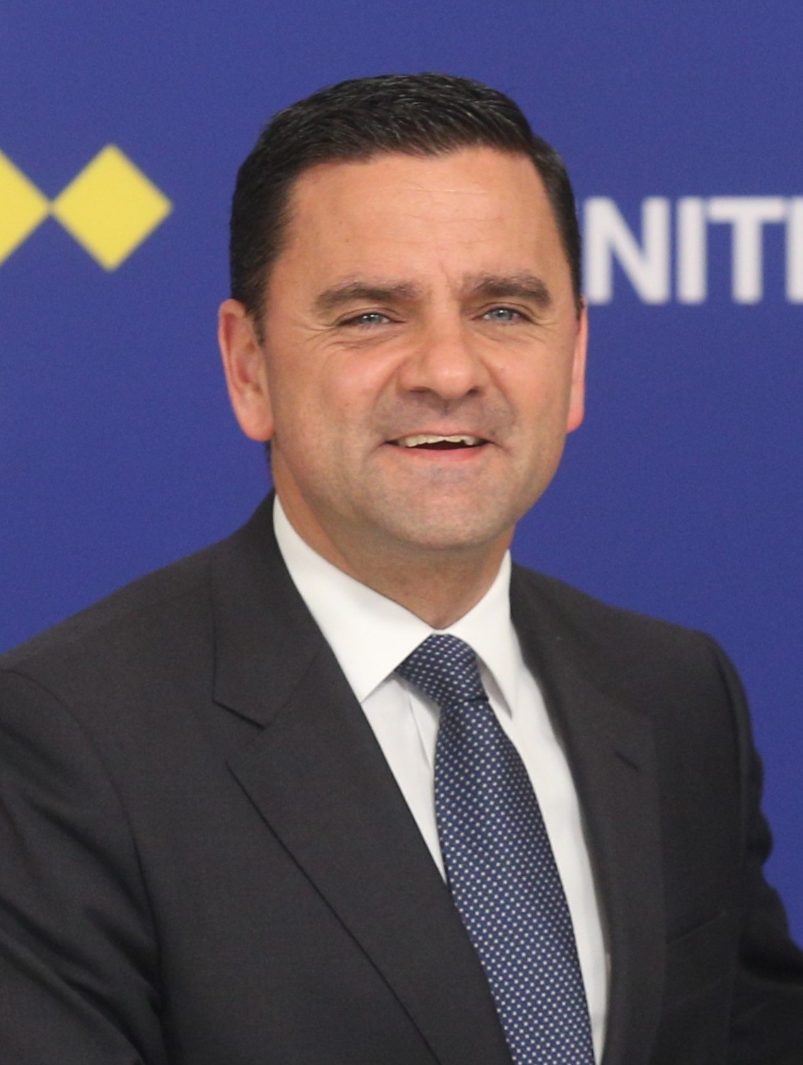 Pedro MARQUES, Minister for Planning and Infrastructure, Portugal (left); Tomislav DONCHEV, Deputy Prime Minister of the Republic of Bulgaria (right) Photo: Kiril Konstantinov (EU2018BG)